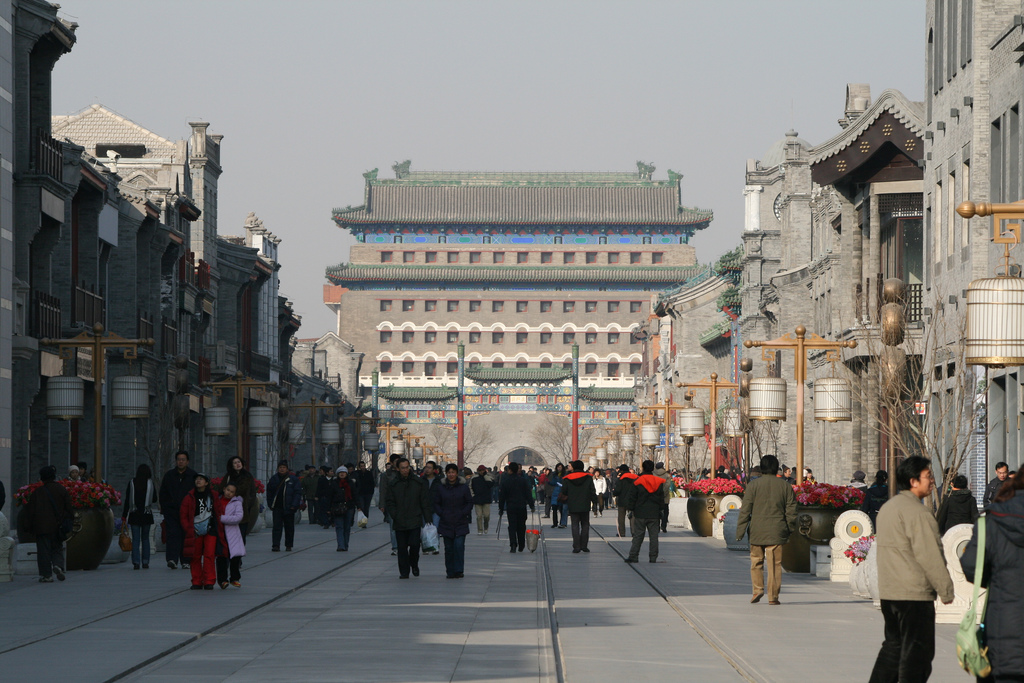 The Qianmen Street in Beijing, China.